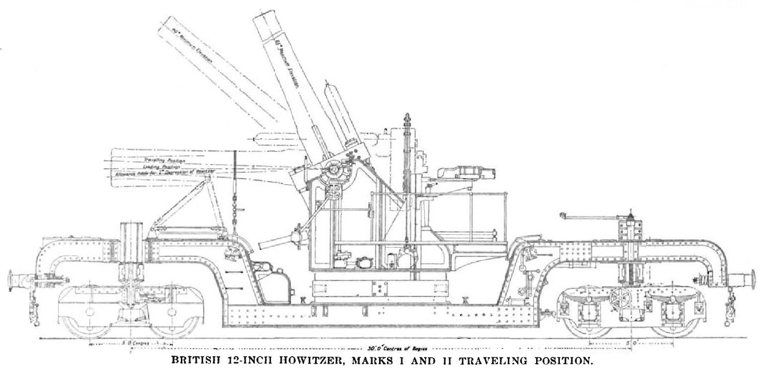 Left elevation diagram of British BL 12-inch Mk I and III railway howitzer.